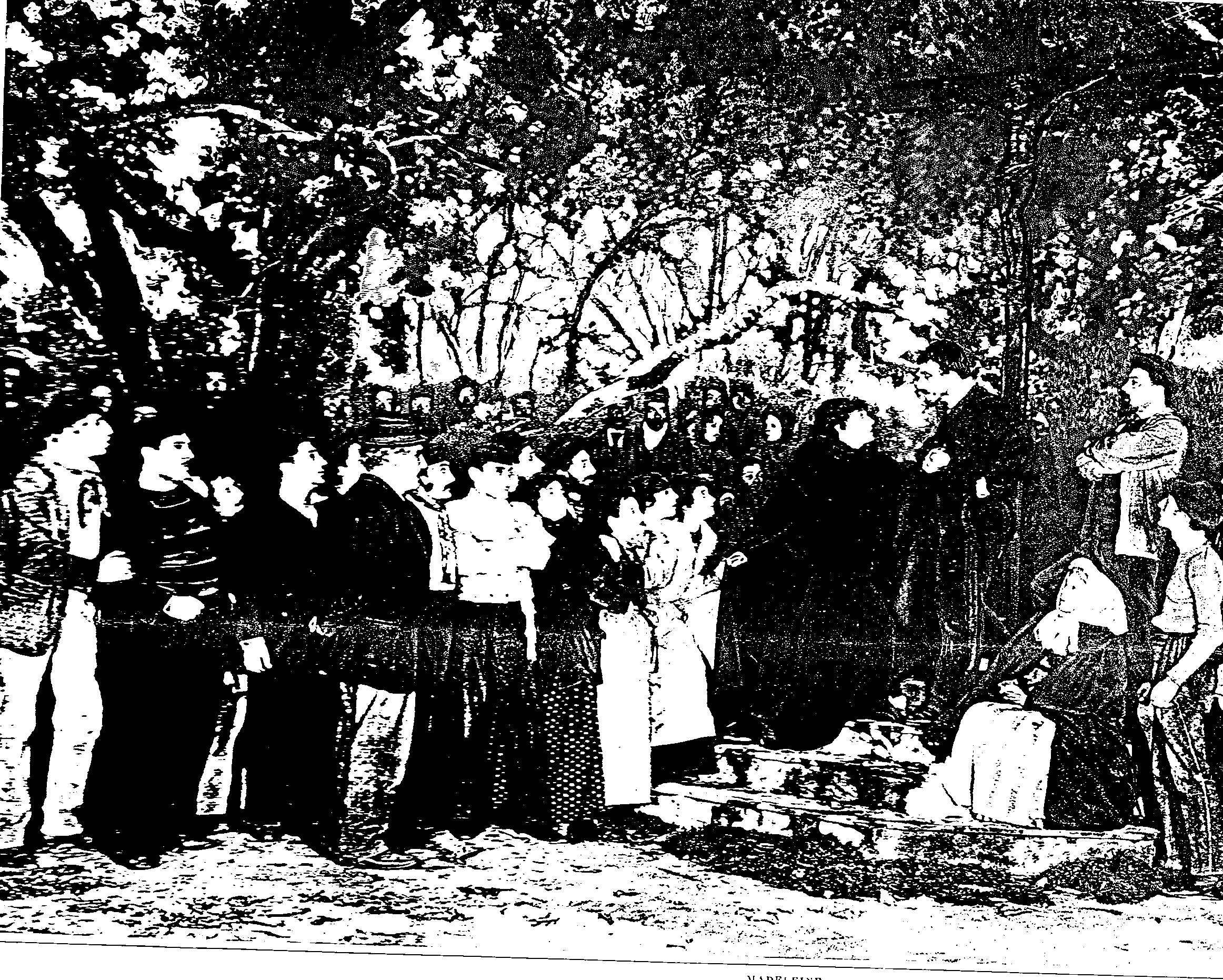 Illustration of an article by Jules Huret about Les Mauvais bergers the drama by Octave Mirbeau